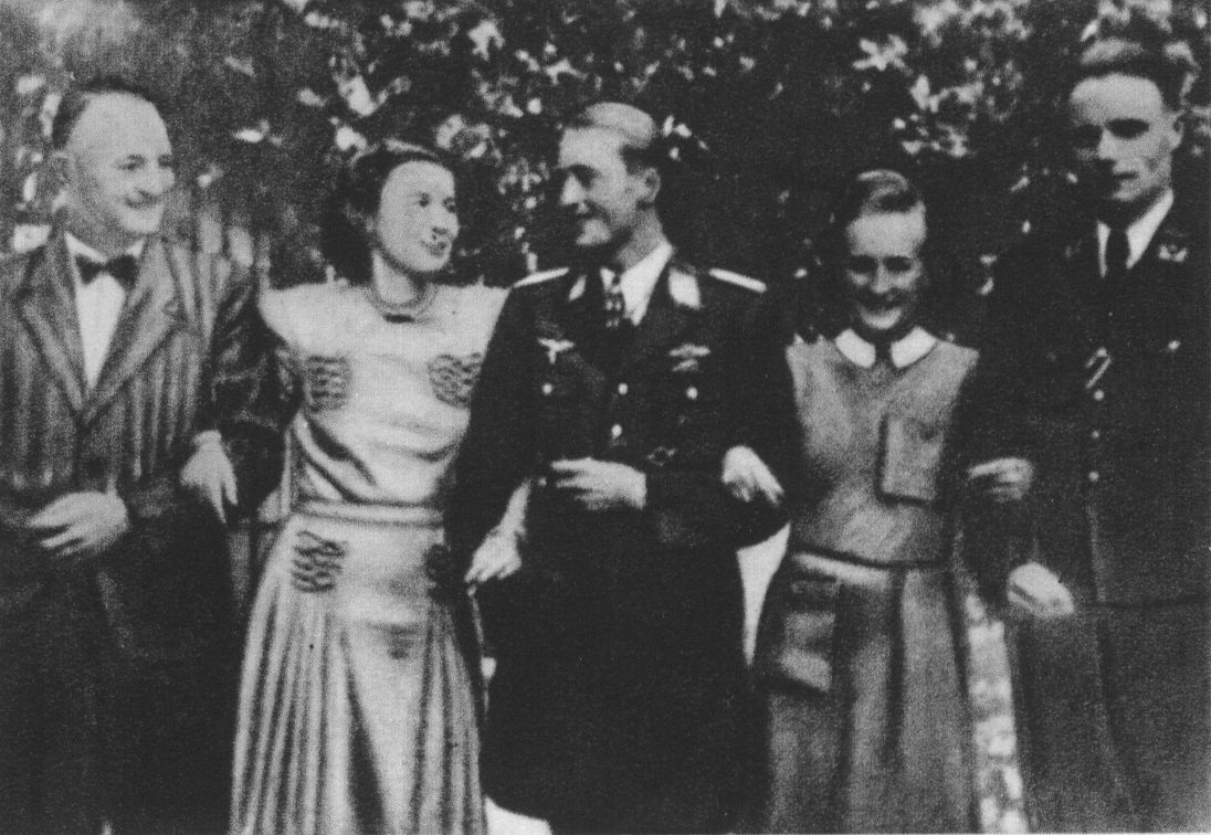 German-occupied Warsaw. People visible in the photo: Ludwig Hahn – Kommandeur der Sicherheitspolizei und des SD in Warsaw (first from the left); Johannes „Macky” Steinhoff – German World War II fighter ace, after the war Inspector of the Luftwaffe in the Bundesluftwaffe, Hahn’s brother-in-law (in the middle); Charlotte Hahn – Ludwig Hahn’s wife and sister of the Steinhoff (second from the right).